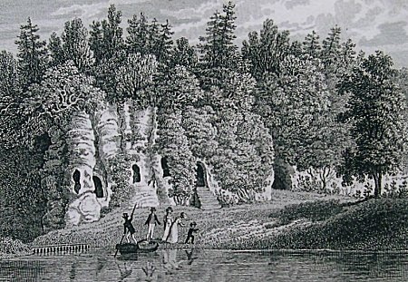 The portfolio:The Anchor Church near Ingleby in Derbyshire. From .... a collection of engravings from antiquarian, architectural and topographical subjects, curious works of art etc., with descriptions; volumes 1-4; by J. and H. S. Storer, London, Nornaville and Fell, 1823,1824